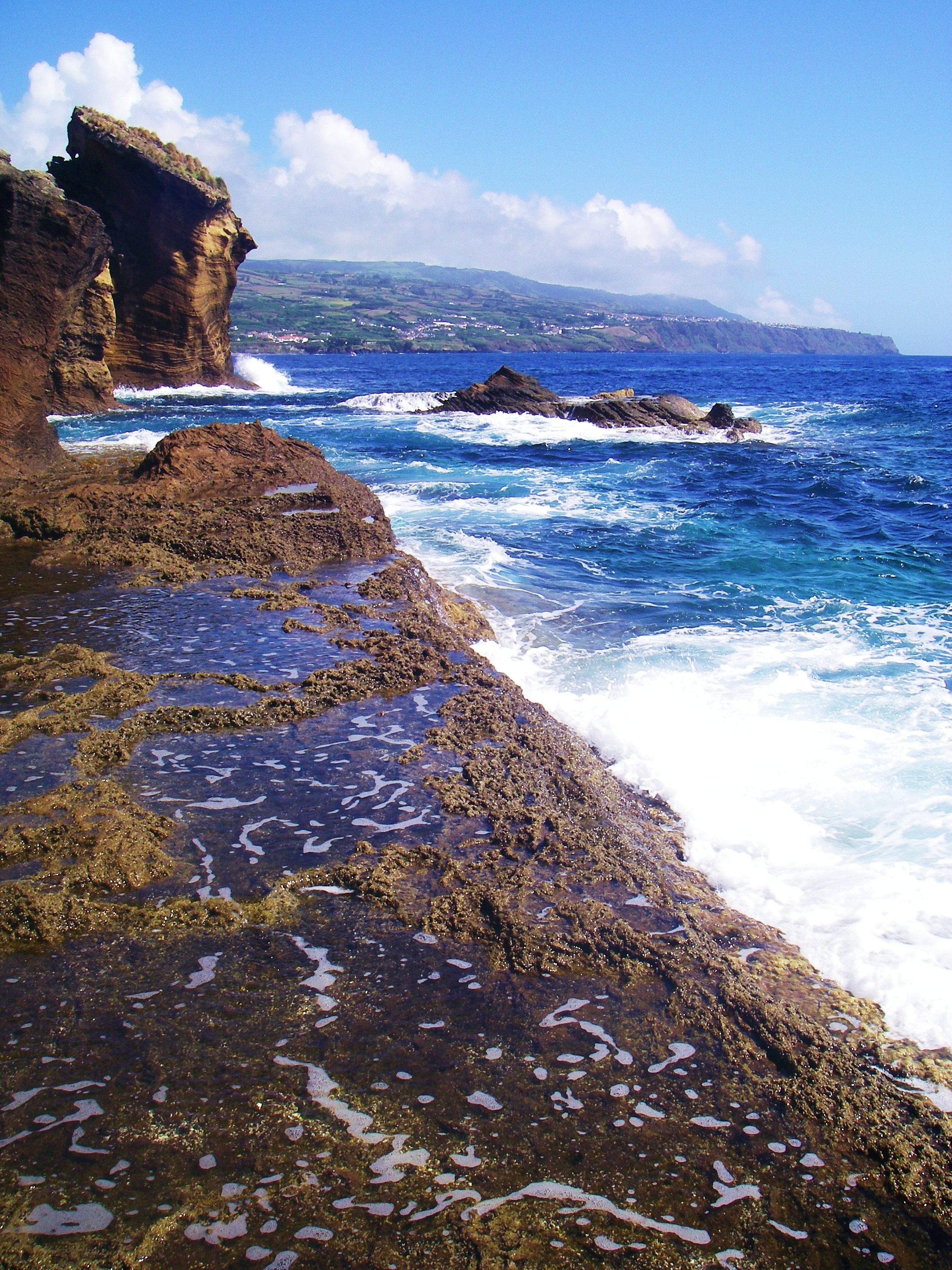 Vulcanic crater formed in the middle of the Atlantic just of the coast from Sau Miguel